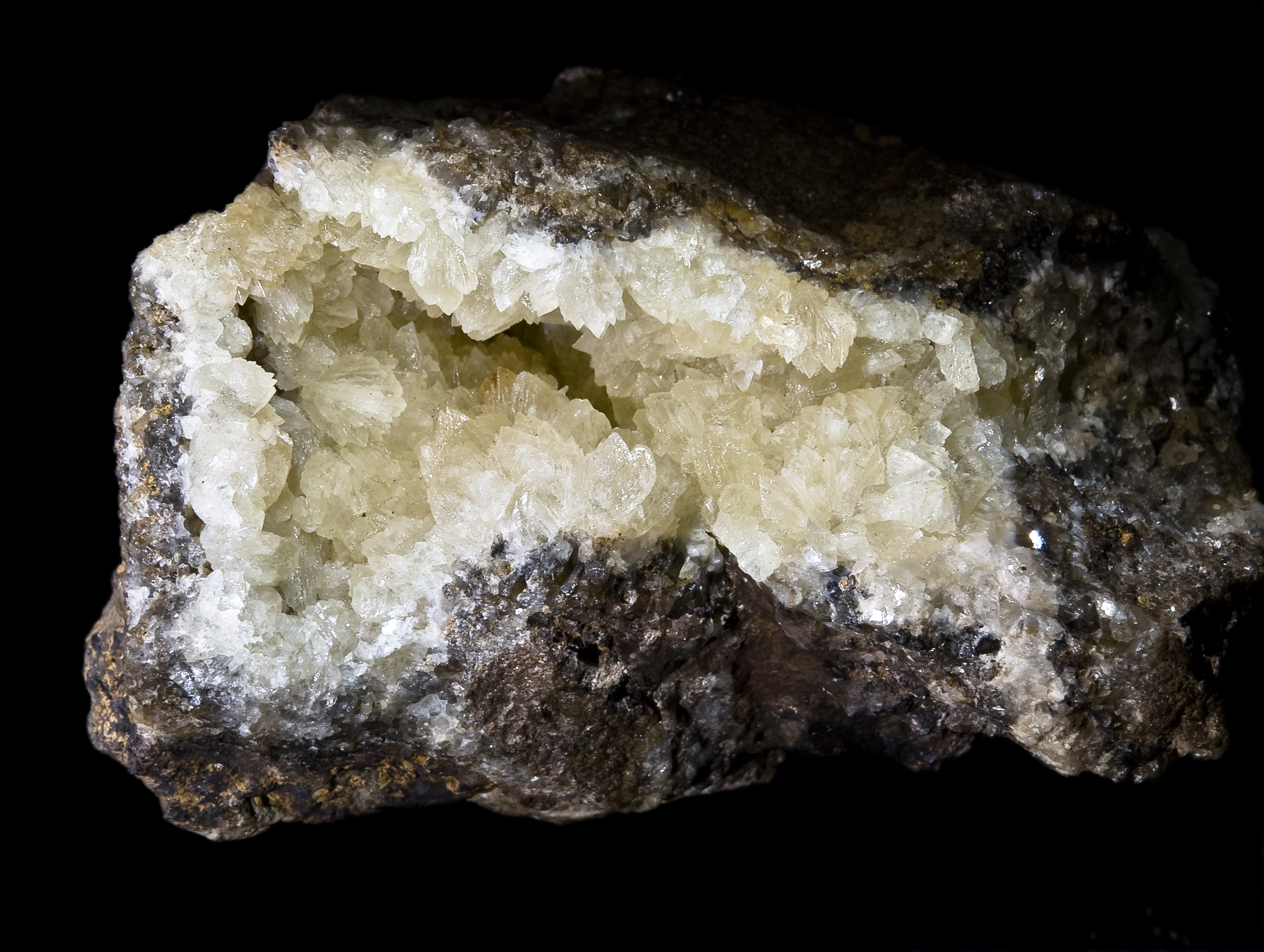 Smithsonite - Vieille Montagne (Altenberg; Kelmisberg), Moresnet, Kelmis, Plombières-Vieille Montagne (Plombières-Altenberg) District, Verviers, Liège Province, Belgium (6.5x4cm)